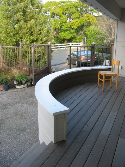 A picture of a porch, with chair, taken by me. Unidentified location.